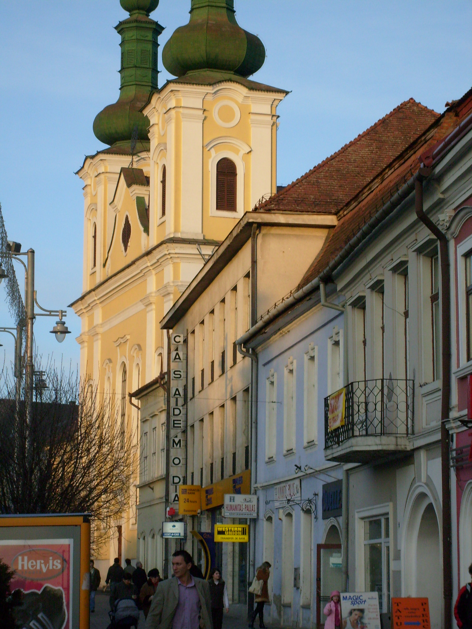 Former Jesuit Church in Targu Mures, now John the Baptist parish church.